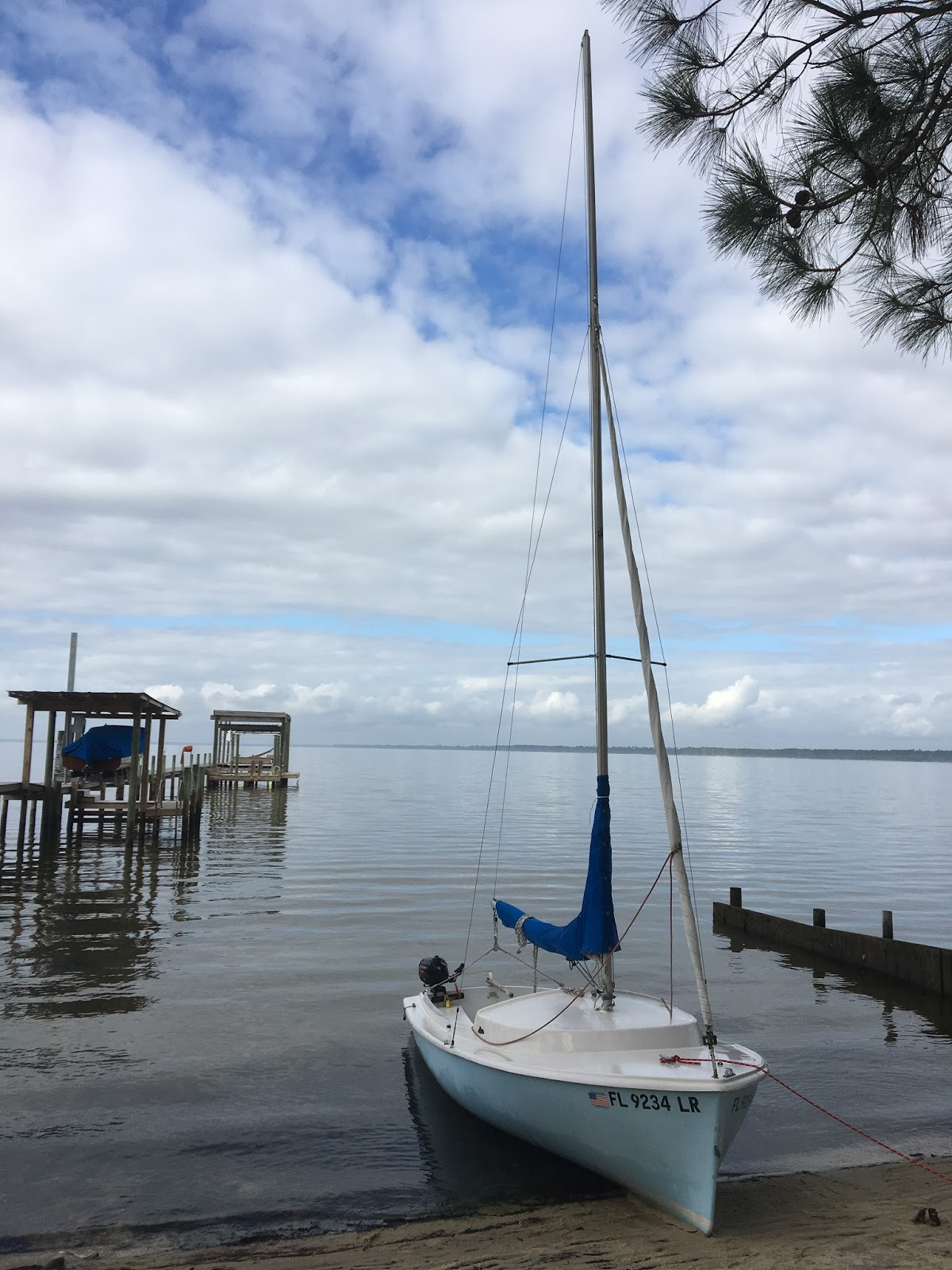 Photo of a 1971 O'Day DaySailer II nosed onto the beach. This boat has roller furling jib added and mainsail with sail slugs stowed on the boom.